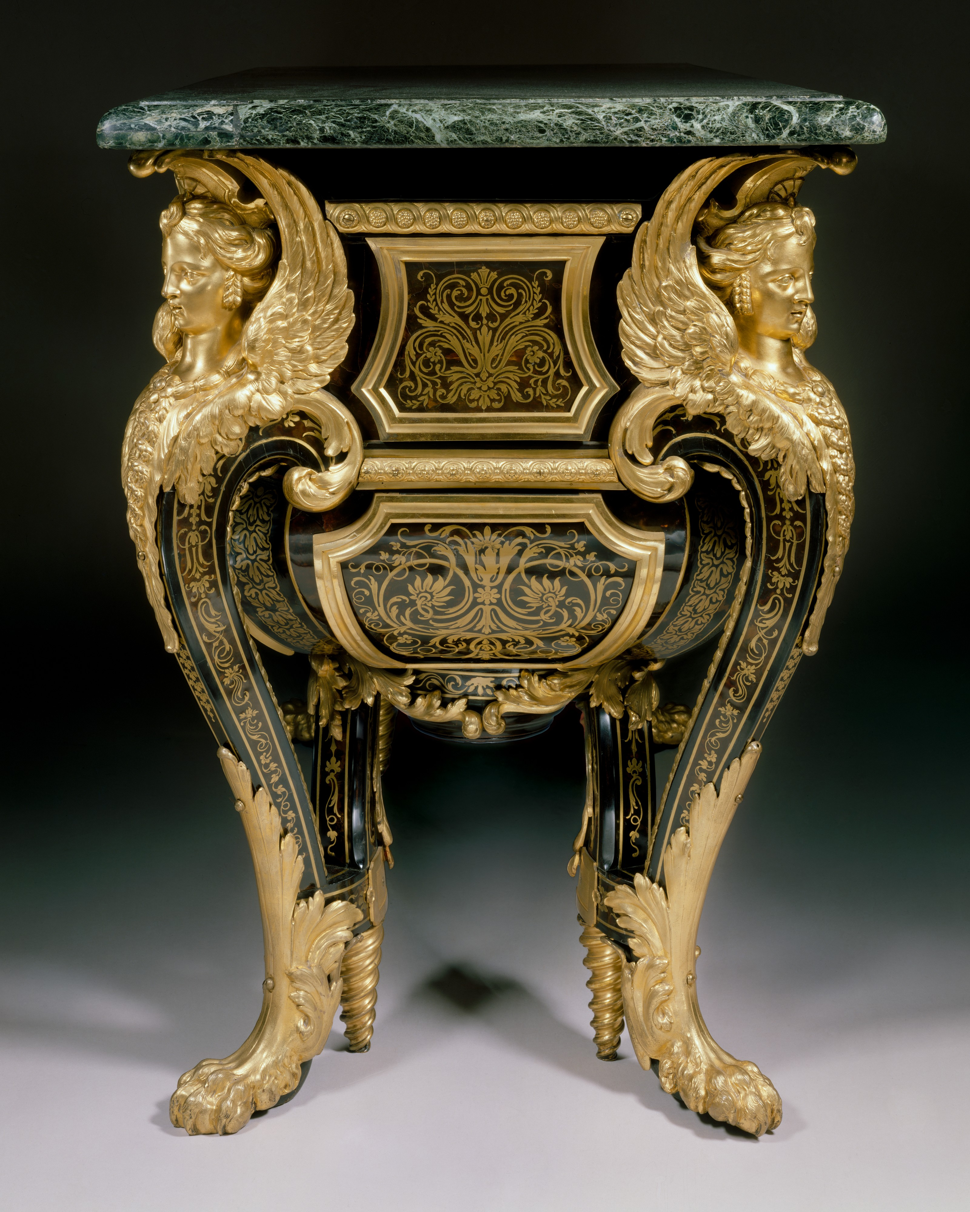 French; Commode; Woodwork-Furniture